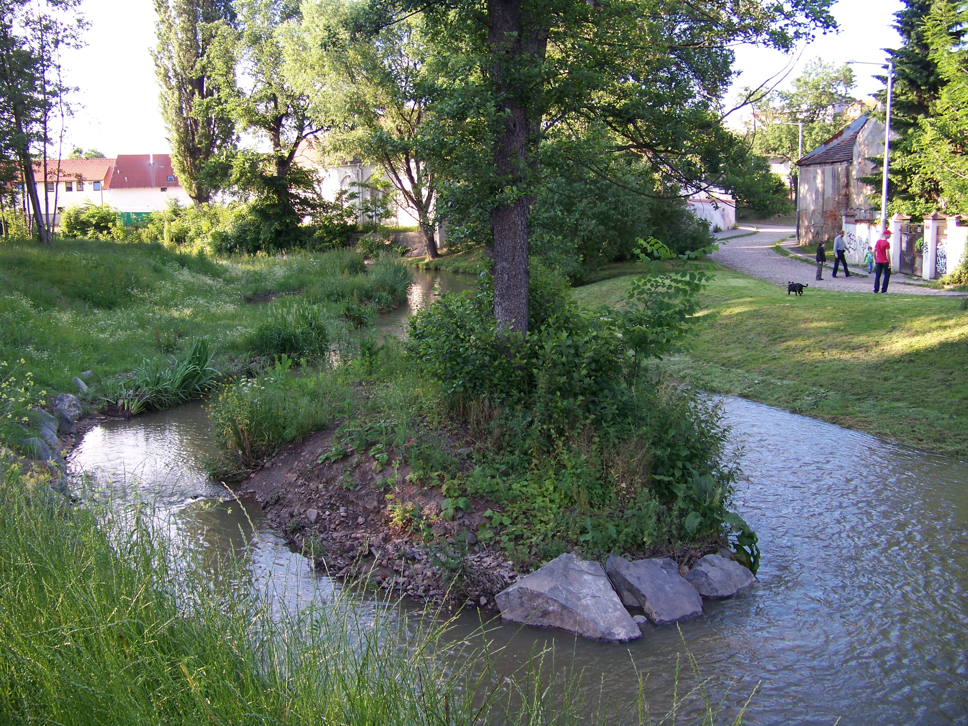 Hostivař, Prague, the Czech Republic. Revitalized Botič creek near Kozinovo Square.